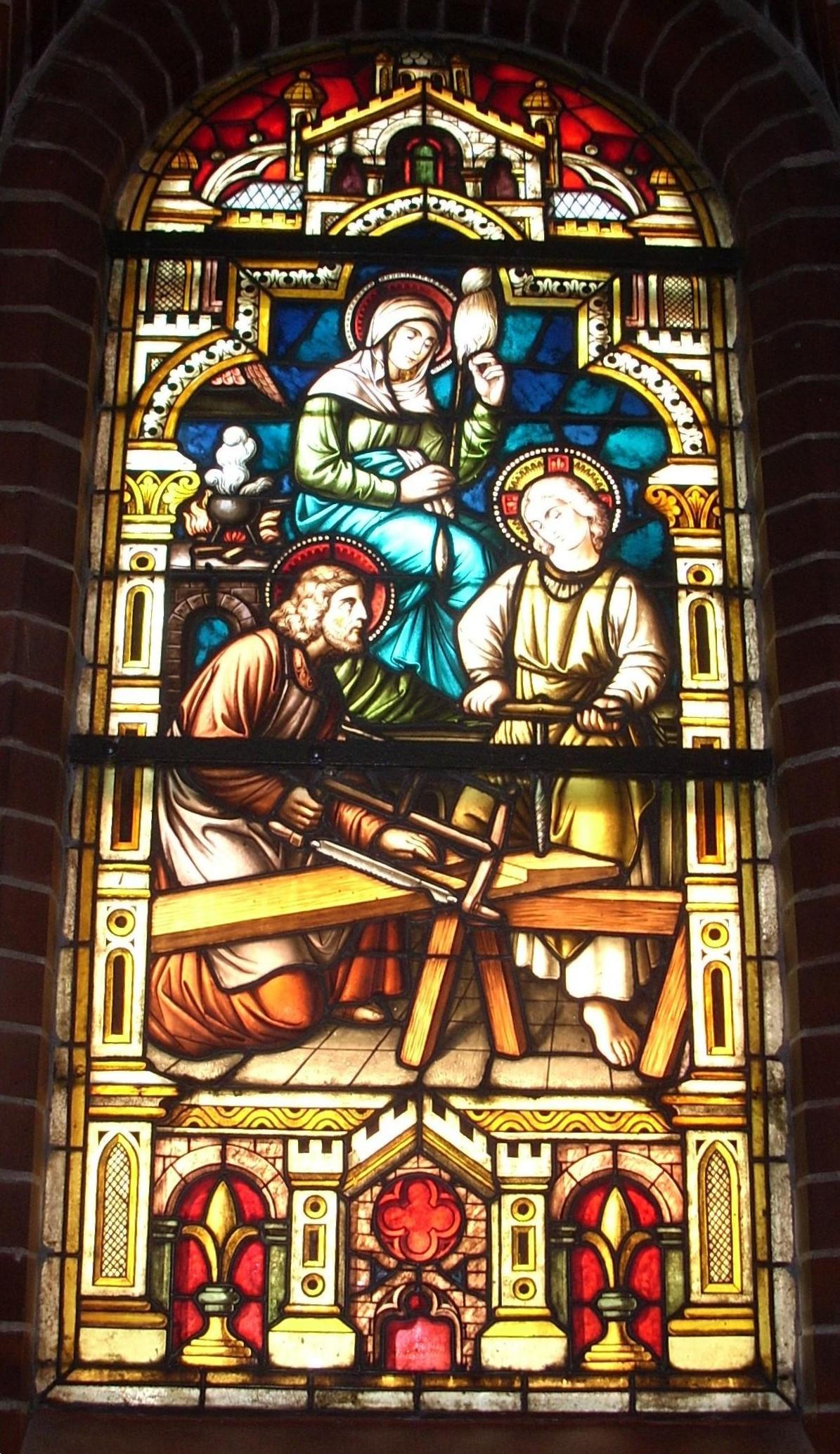 St. Josef Church Sehnde-Bolzum (Germany): Holy Family at work, central apse window